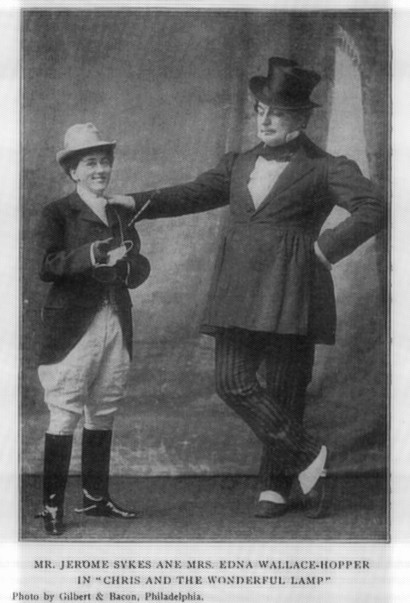 Chris and the Wonderful Lamp circa 1900